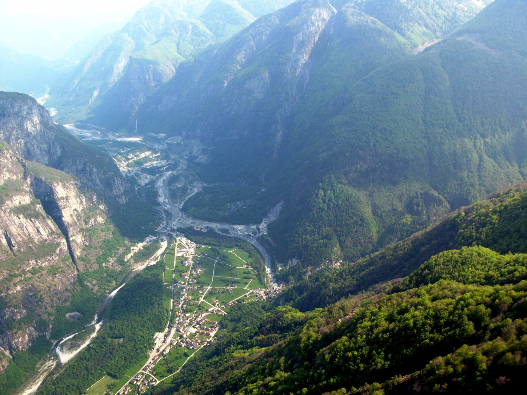 Cevio municipality and the surrounding valley in Ticino, Switzerland